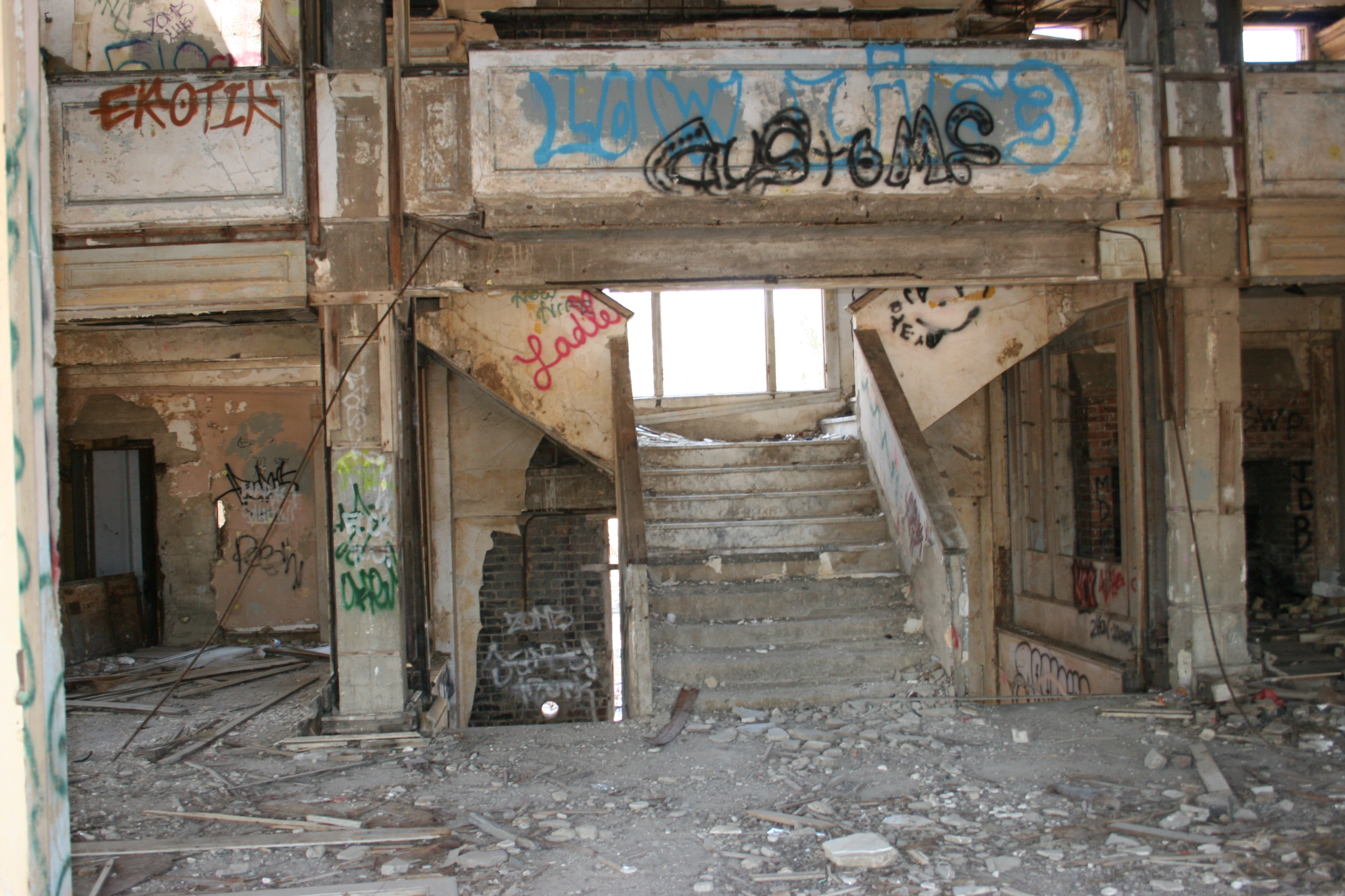 Byron Hot Springs Hotel, August 2008. This Hotel was part of a Resort frequented by Hollywood-stars and top athletes. Later it became Camp Tracy, a interrogation facility in WWII.